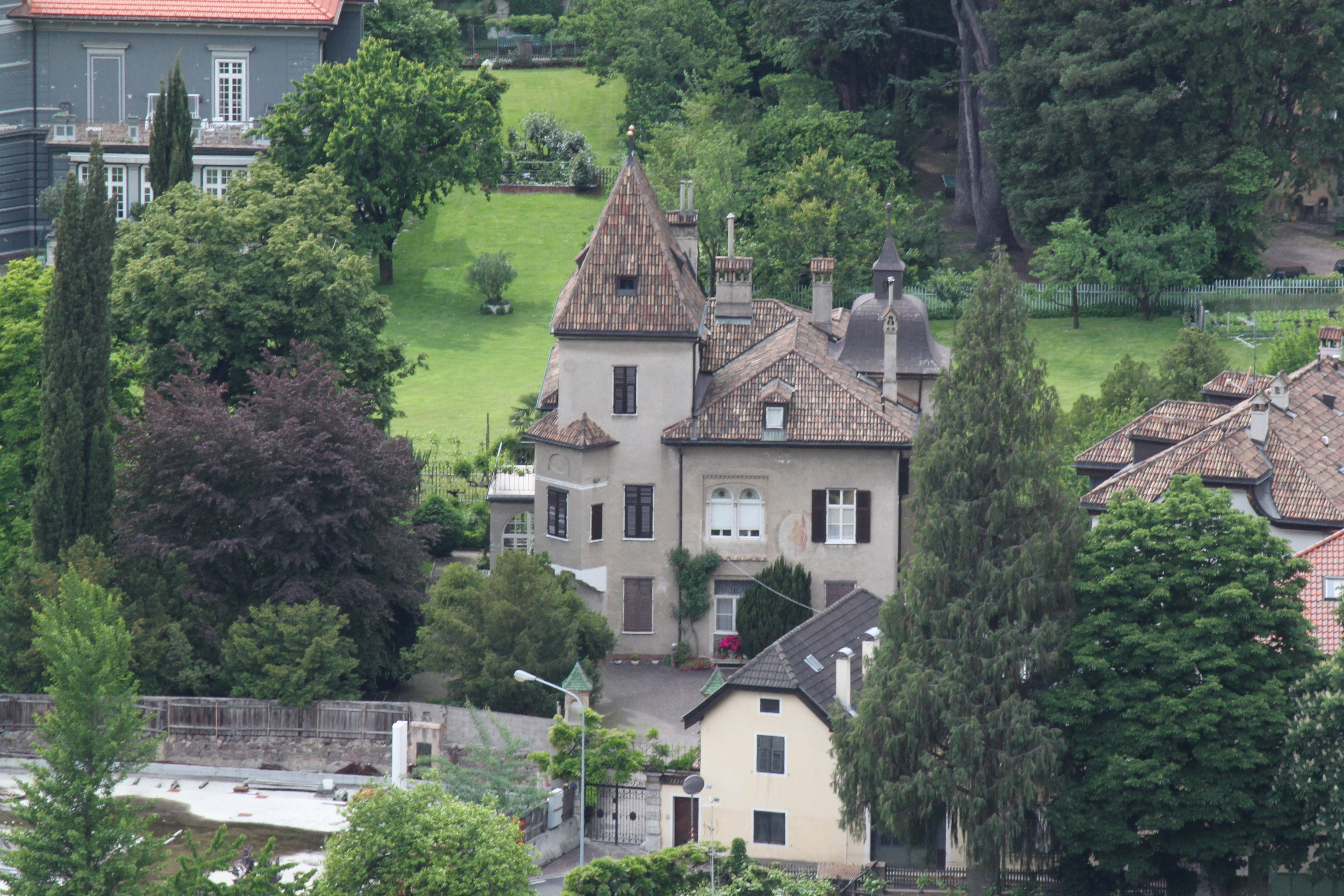 Villa Defregger (est view) in Bozen Bolzano South Tyrol